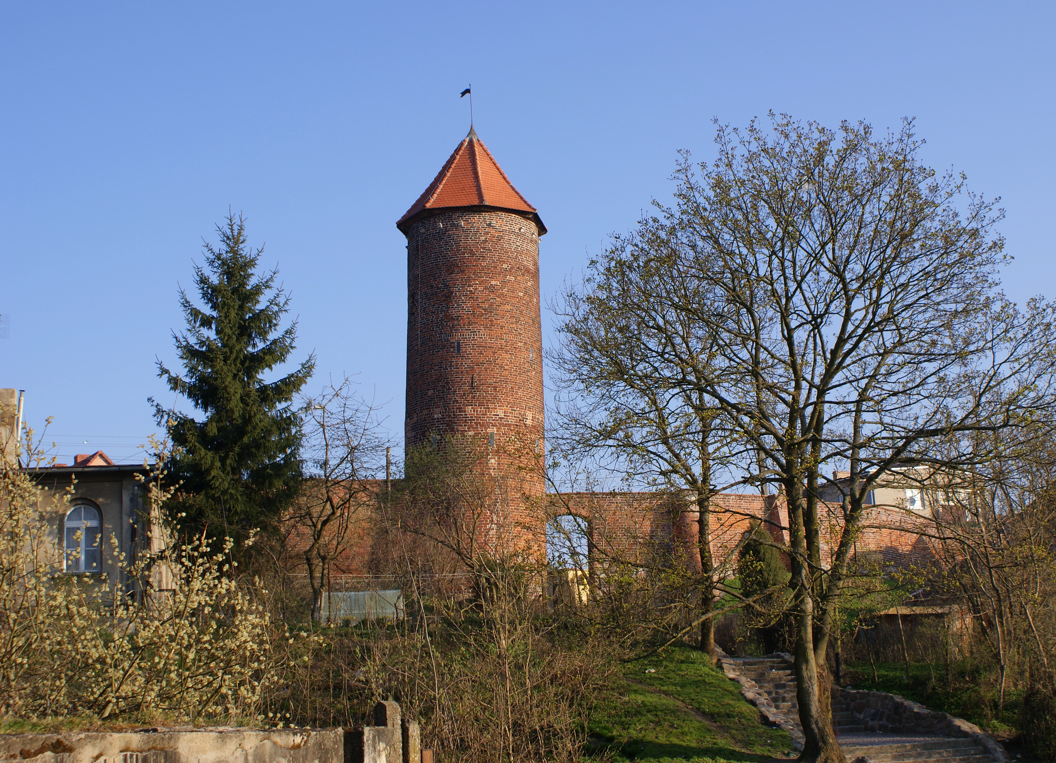 Bulwark of the townwalls and Kaszana Tower in Trzebiatów